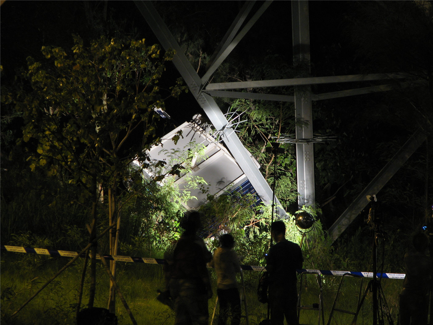 Ngong Ping Cable Car accident at scene. An incident occurred on 11 June 2007, during a brake test which was part of the annual examination of the cable, when an empty cabin fell off the cable and crashed into a hilly area near Chek Lap Kok South Road. The cable car was not in commercial operation at the moment of the crash. No injuries were caused.